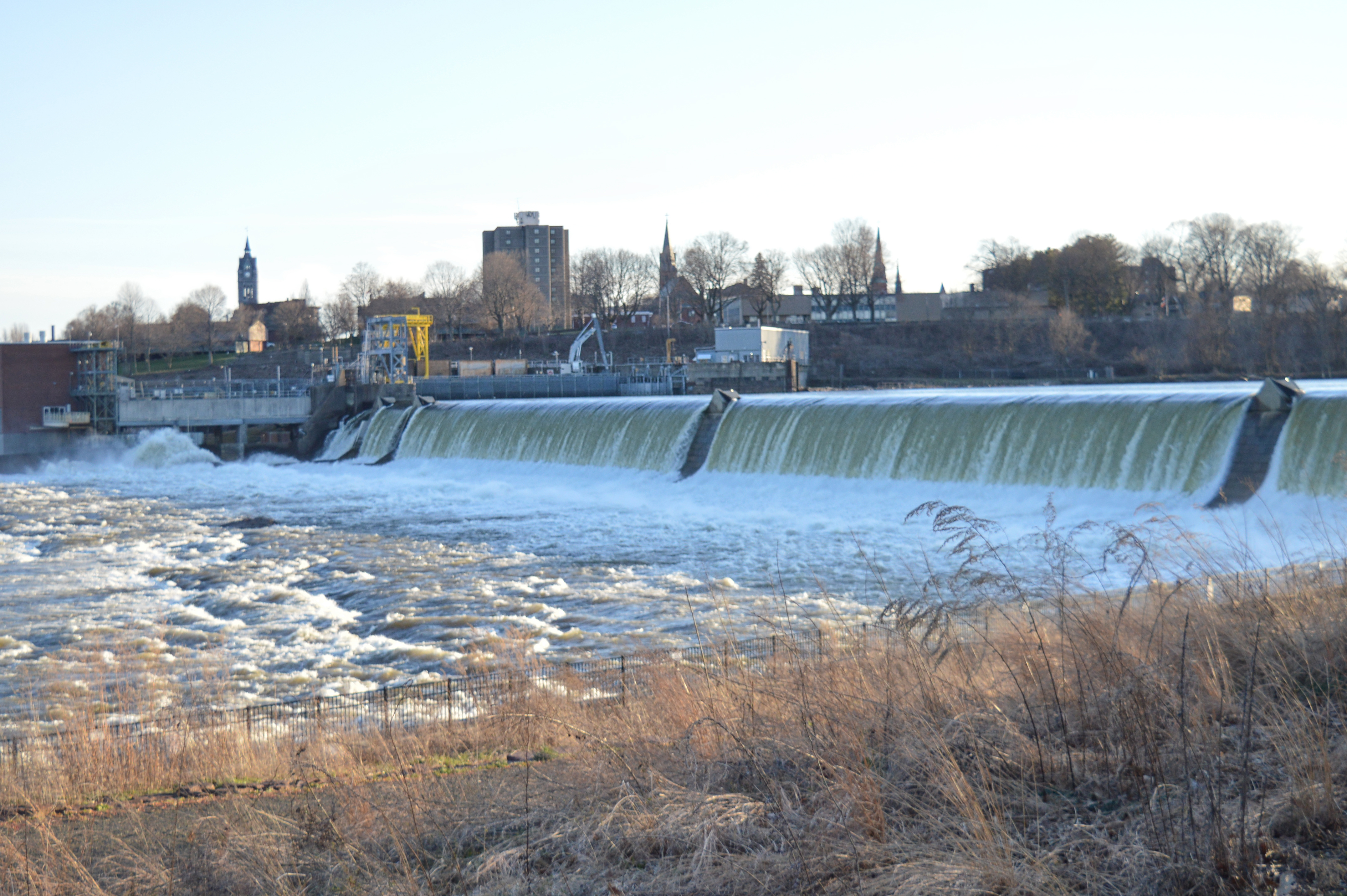 The Holyoke Dam as seen from South Hadley during the freshet or "spring thaw". The Hadley Falls Power Station can be seen to the far left.